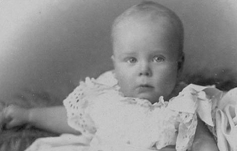 Henry Allingham in infancy